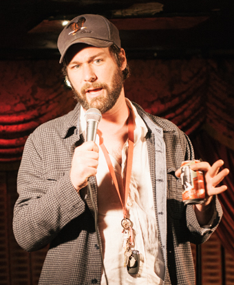 Canadian comedian Jon Dore at Not Safe For Work Presented by Comedy Central Produced by CleftClips Photography by Mandee Johnson / The Del Monte Speakeasy at Townhouse Venice - Los Angeles, CA June 4, 2013